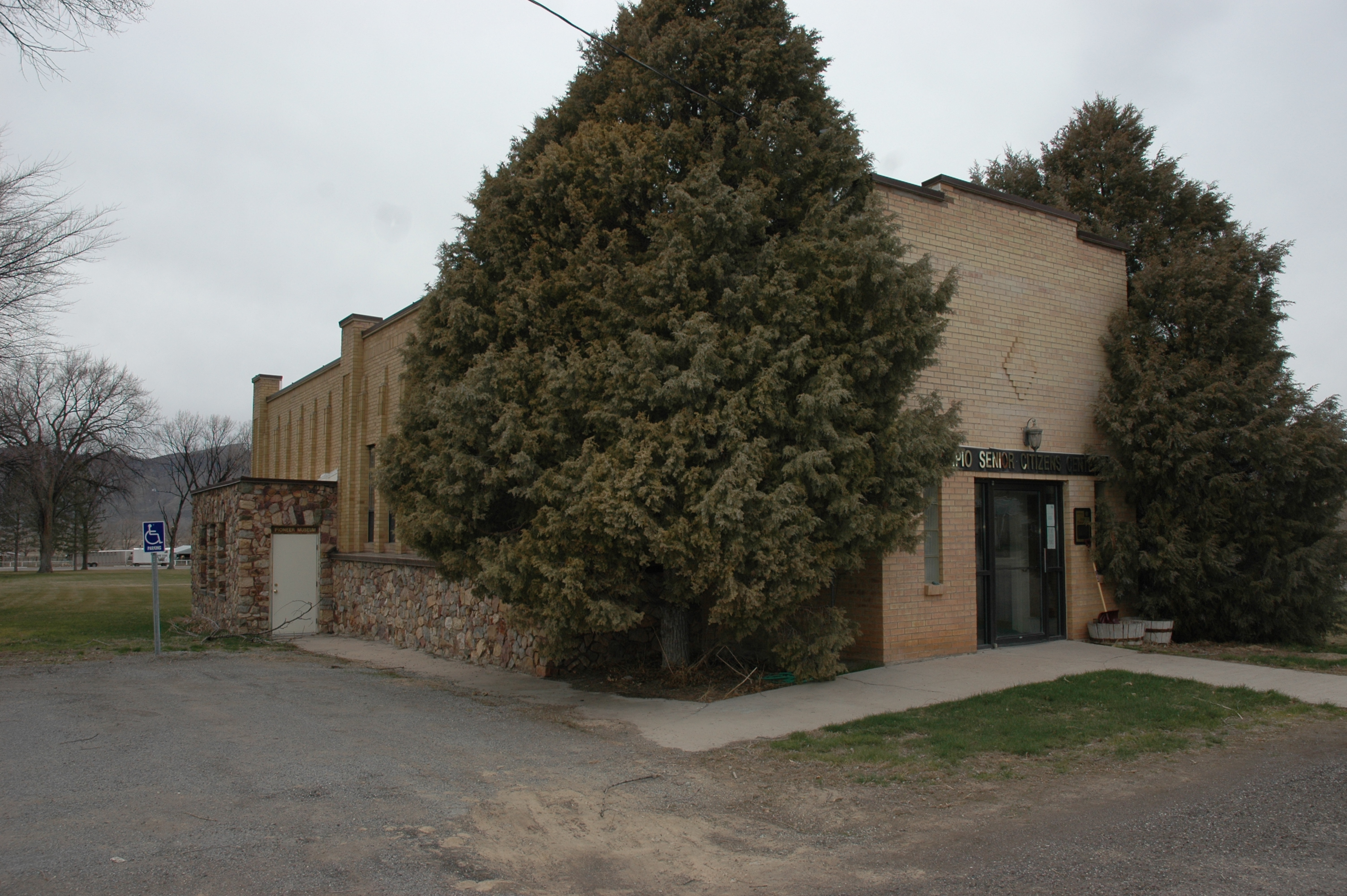 The Scipio Town Hall, a historic building in Scipio, Utah, United States, now serves as the Round Valley Camp DUP Museum.